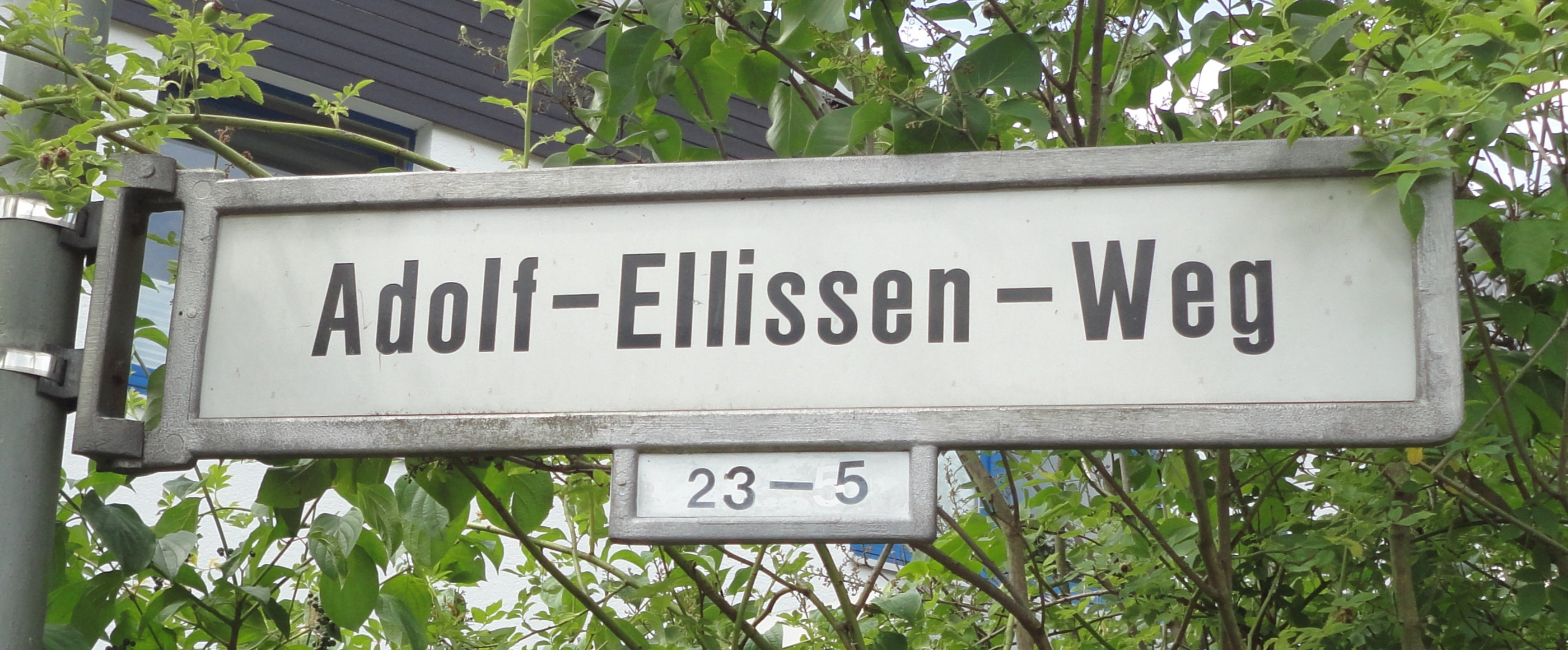 Göttingen-Weende, road sign Adolf-Elissen-Weg